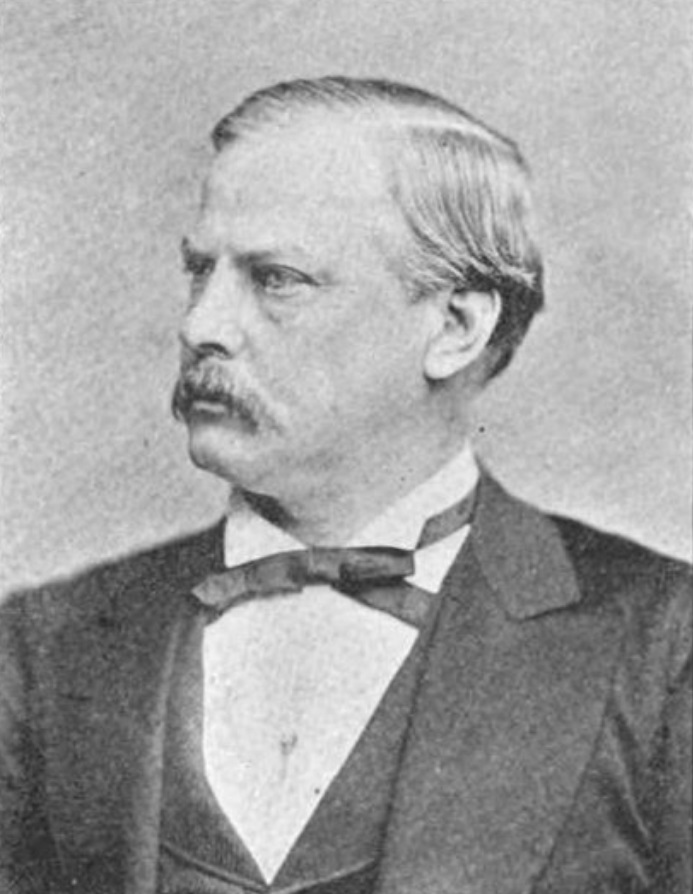 Louisiana Justice Charles E. Fenner, The Green Bag, no border